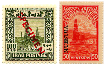 Overprinted SPECIMEN postage stamps of Iraq and Argentina.